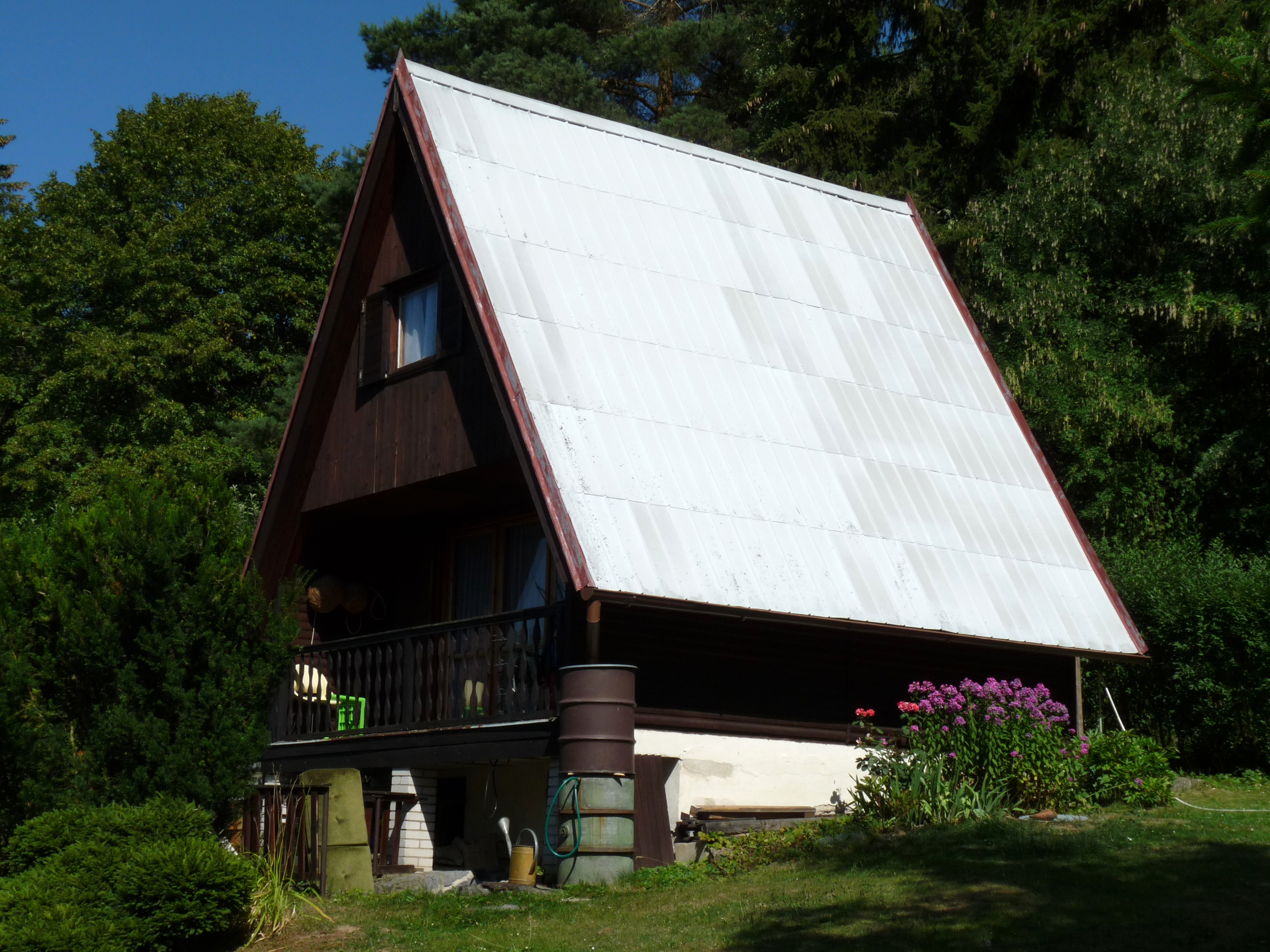 Weekend house in the village of Budín, Kutná Hora District, Central Bohemian Region, Czech Republic.